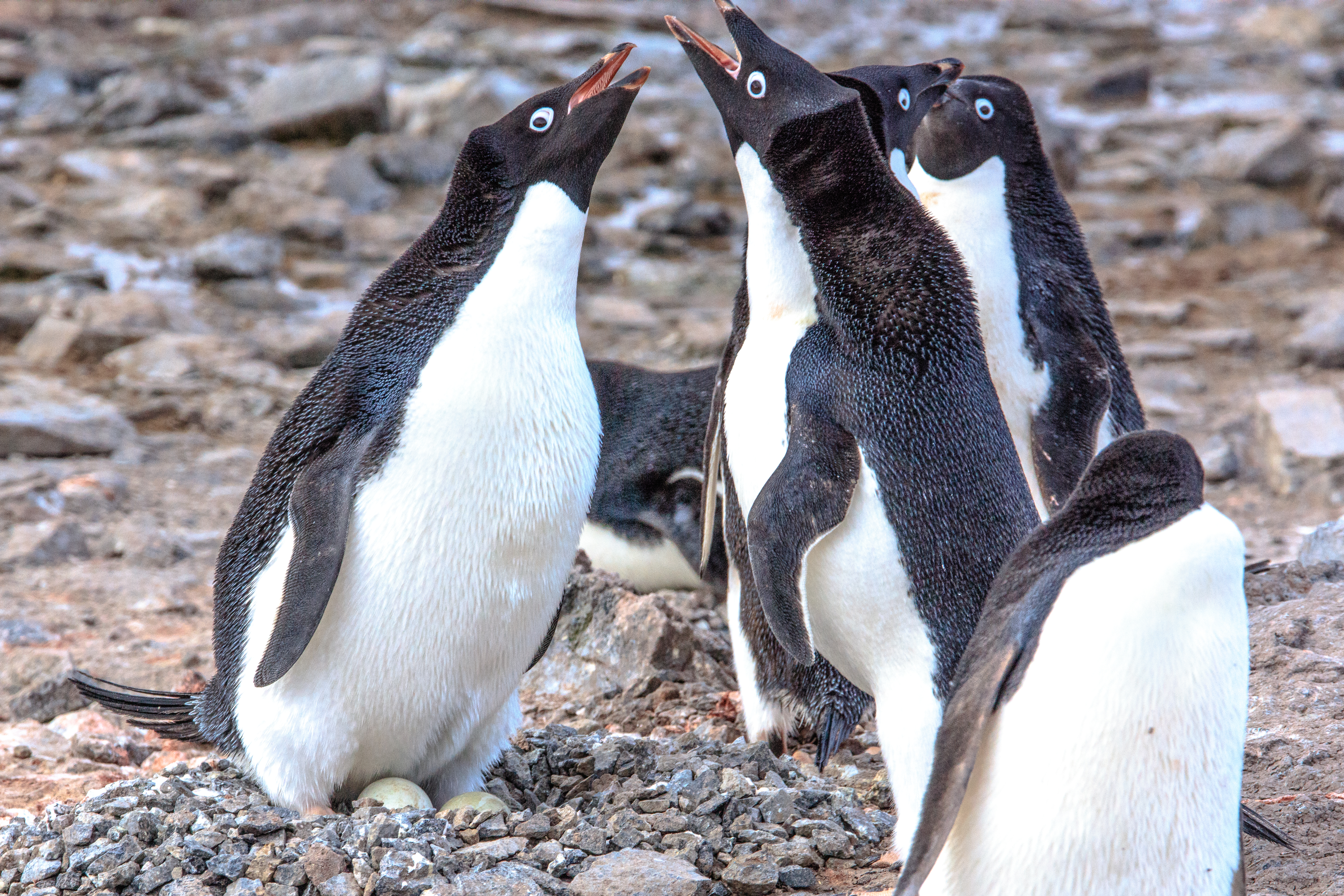 Afternoon landing (#5) on Gourdin Island just of the N tip of the Antarctic Peninsula...more Aselie Penguins (Pygoscelis adeliae) nesting with young...